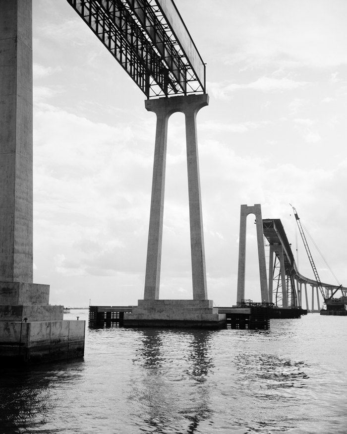 San Diego-Coronado Bridge under construction (circa 1968). Photo published by Caltrans as part of the 40-year anniversary of the bridge. The "Marine Boss" can be seen to the right of the frame.